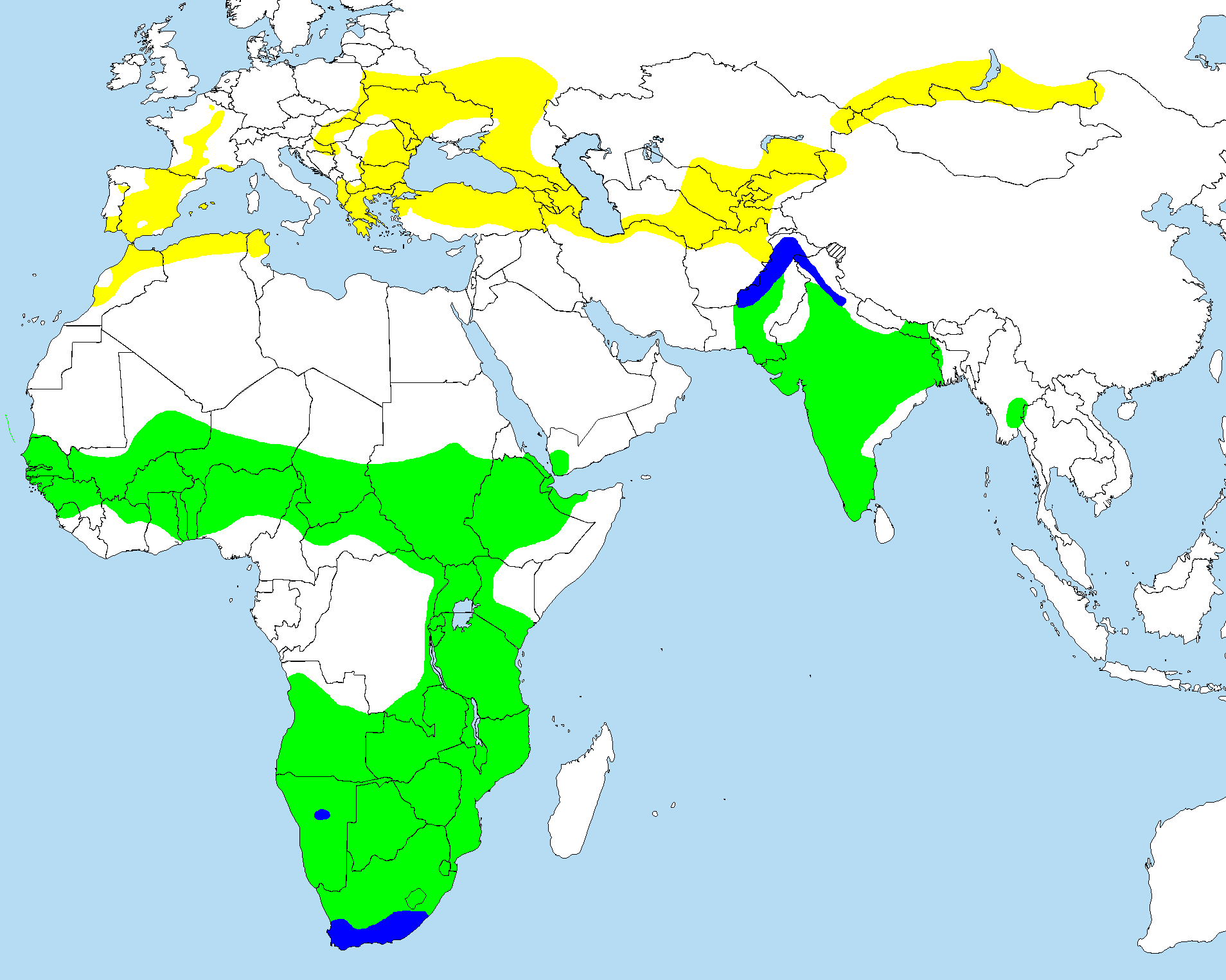 A map showing the distribution of Booted Eagle (Hieraaetus pennatus), yellow = area inhabitated in summer, green = area inhabitated in winter, blue = residential area. Reference: Ferguson-Lees & Christies: Raptors of the World. C. Helm, London 2003